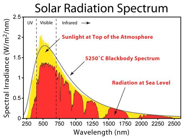 Slightly modified version of Solar Radiation Spectrum Removed from the following pages: Nantenna --OrphanBot (talk) 07:46, 6 May 2009 (UTC)